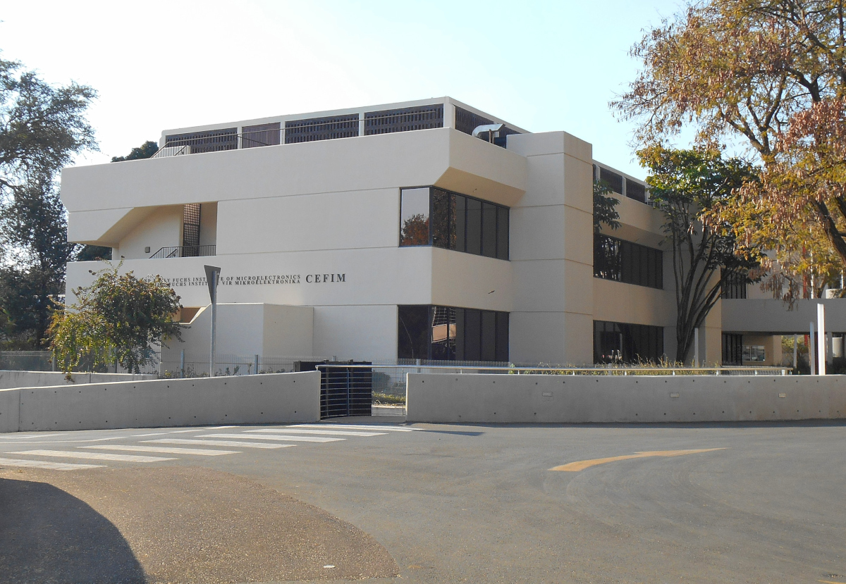 Carl Emily Fuchs Institute for Microelectronics (CEFIM) at the University of Pretoria